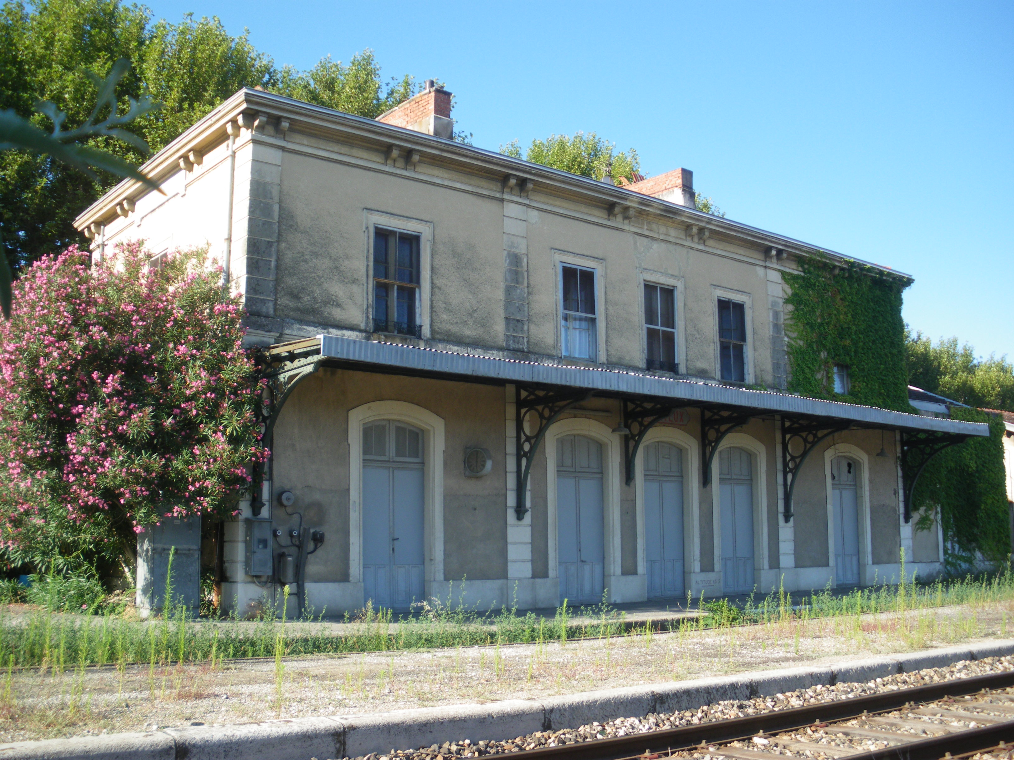 Monteux Trains station, Vaucluse, France